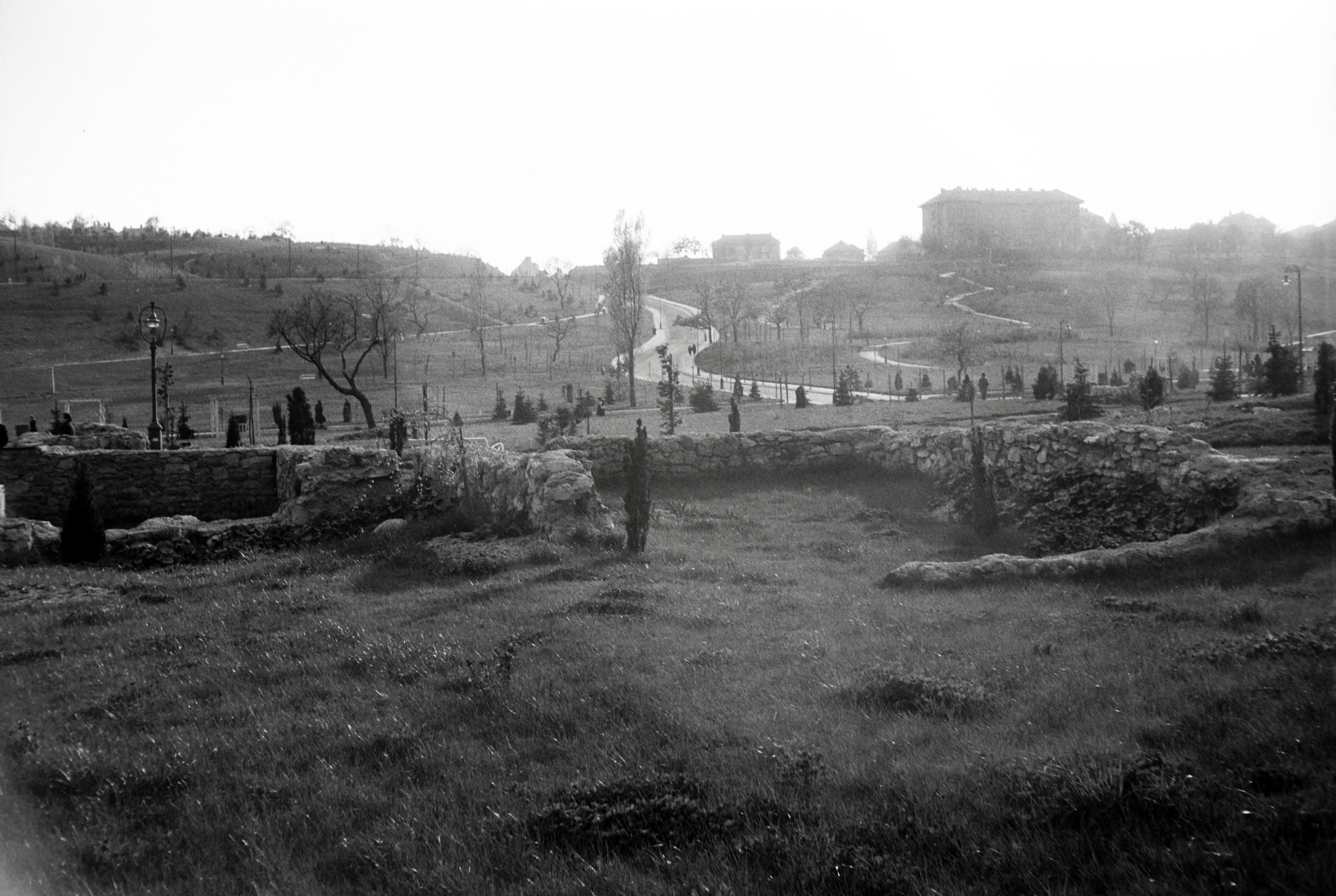 Medieval ruins in the Tabán Park in 1938 with Naphegy in the background. The ruins were discovered in 1936 after the demolition of the Tabán. Buildings no. III. and II. (as named by archaeologist Sándor Garády; in the foreground) have since disappeared.